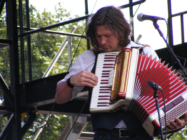 Austin City Limits festival 2008 - Will Kimbrough with accordion